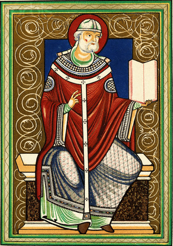 Gregory I became pope in 590 and effected great changes in the Roman Catholic church. He used the office to govern and provide pastoral care to a large area during a time of little civil administration. He also reformed church liturgy, introducing Gregorian chant. Gregory's writings about saints, including Saint Benedict, helped the growth of Benedictine monasteries in the Middle Ages.